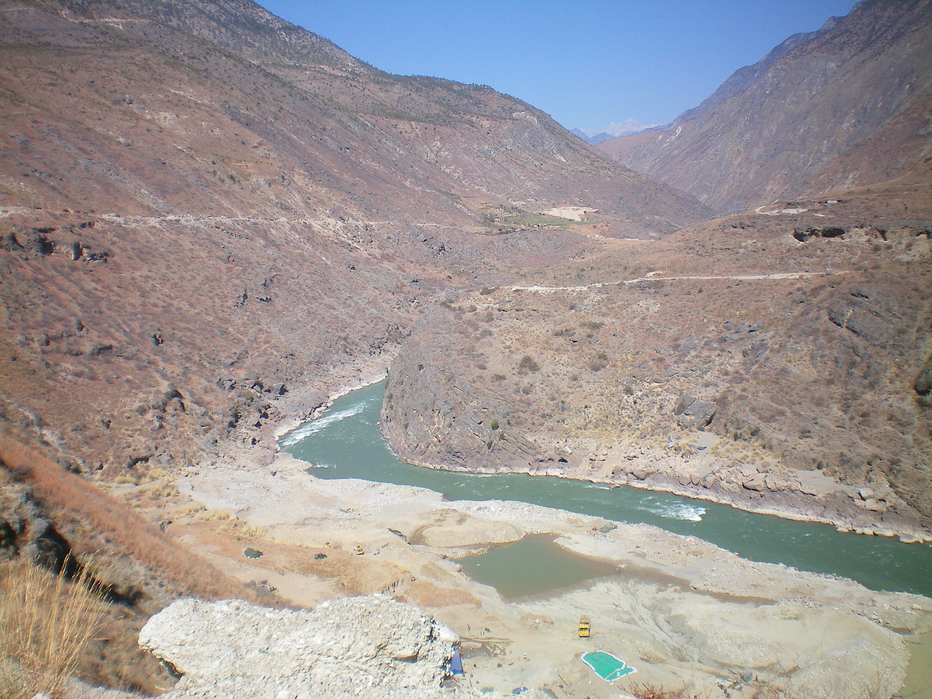 Jinsha River — in Yunnan